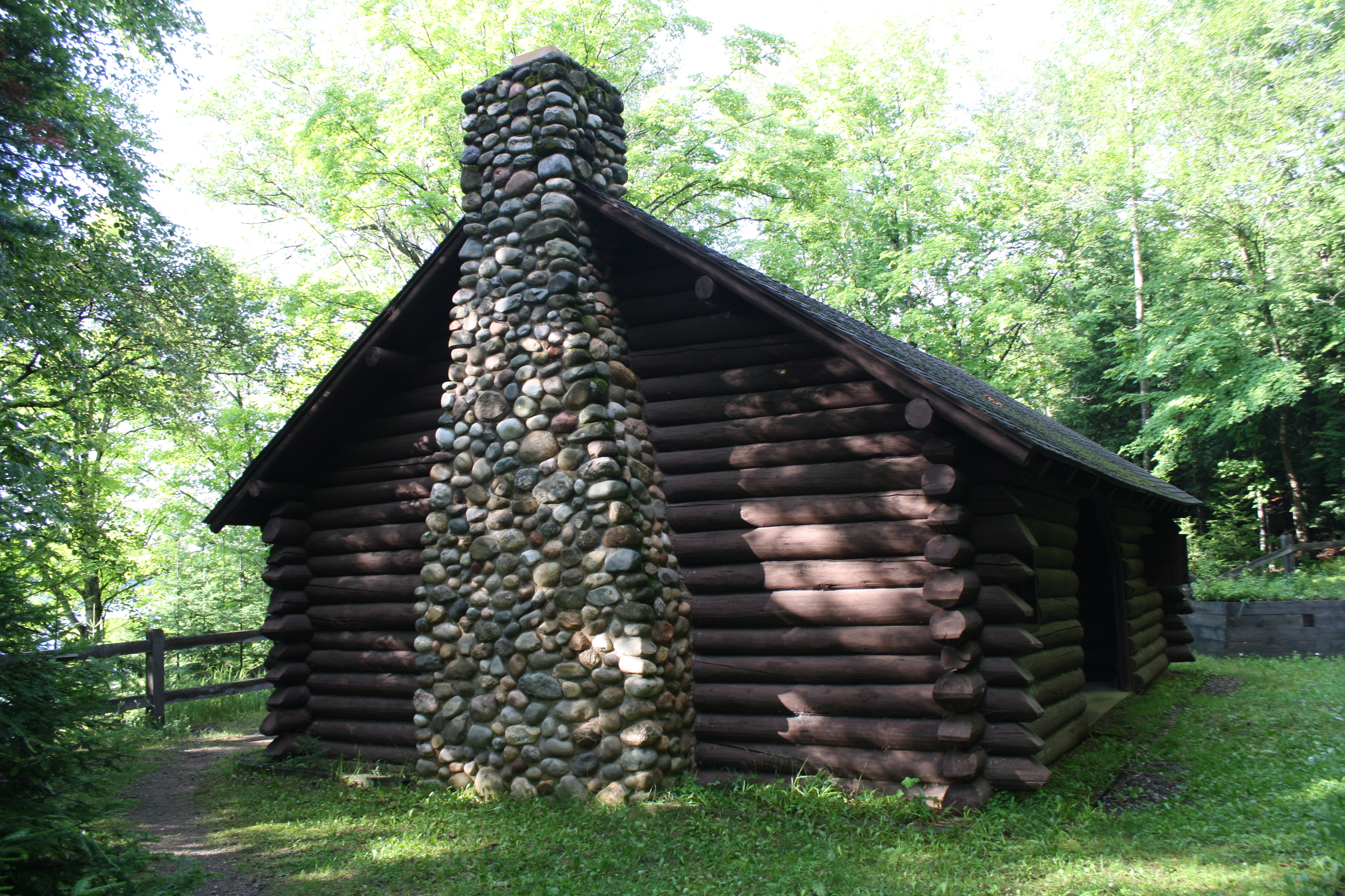 The Anvil Lake Campground Shelter, listed on the National Register of Historic Places in Wisconsin. It is part of the